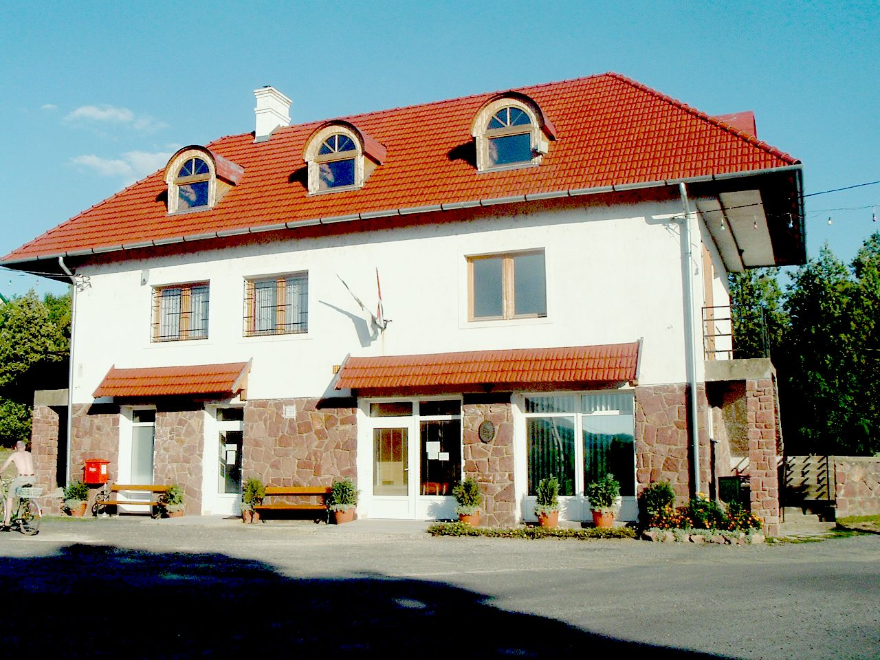 The Mayor's Office in Káptalantóti